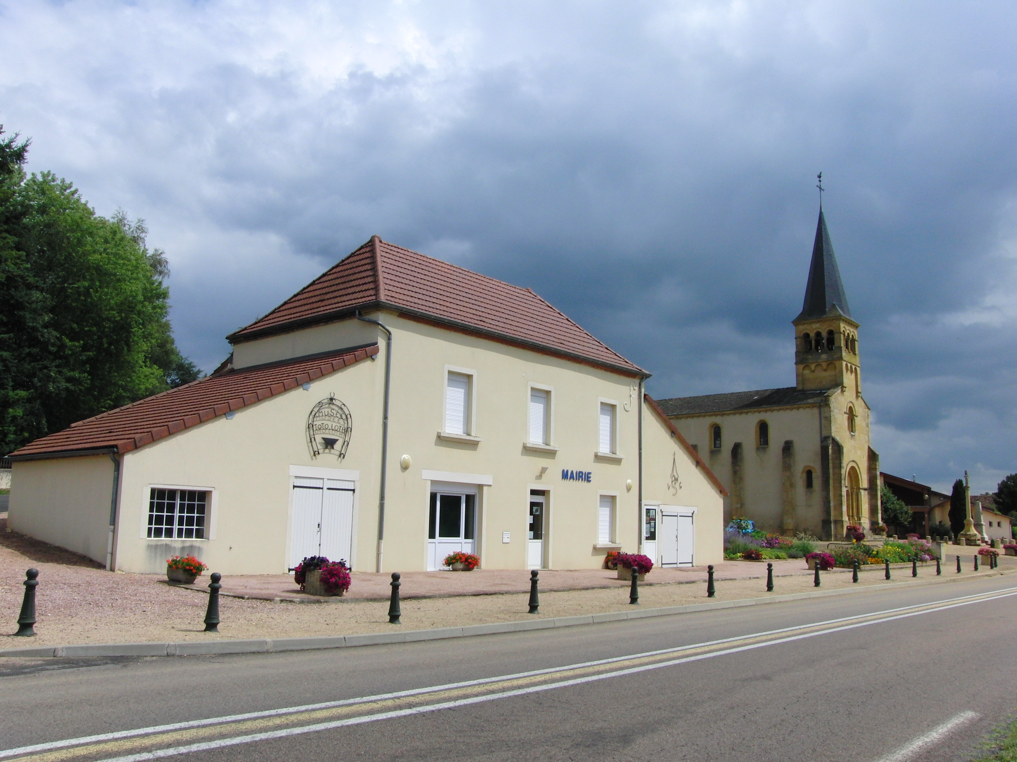 City hall and church of Varenne-Saint-Germain, Saône-et-Loire, France